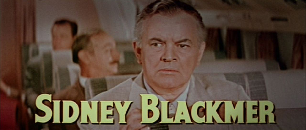 Screenshot showing Sidney Blackmer from the film The High and the Mighty.